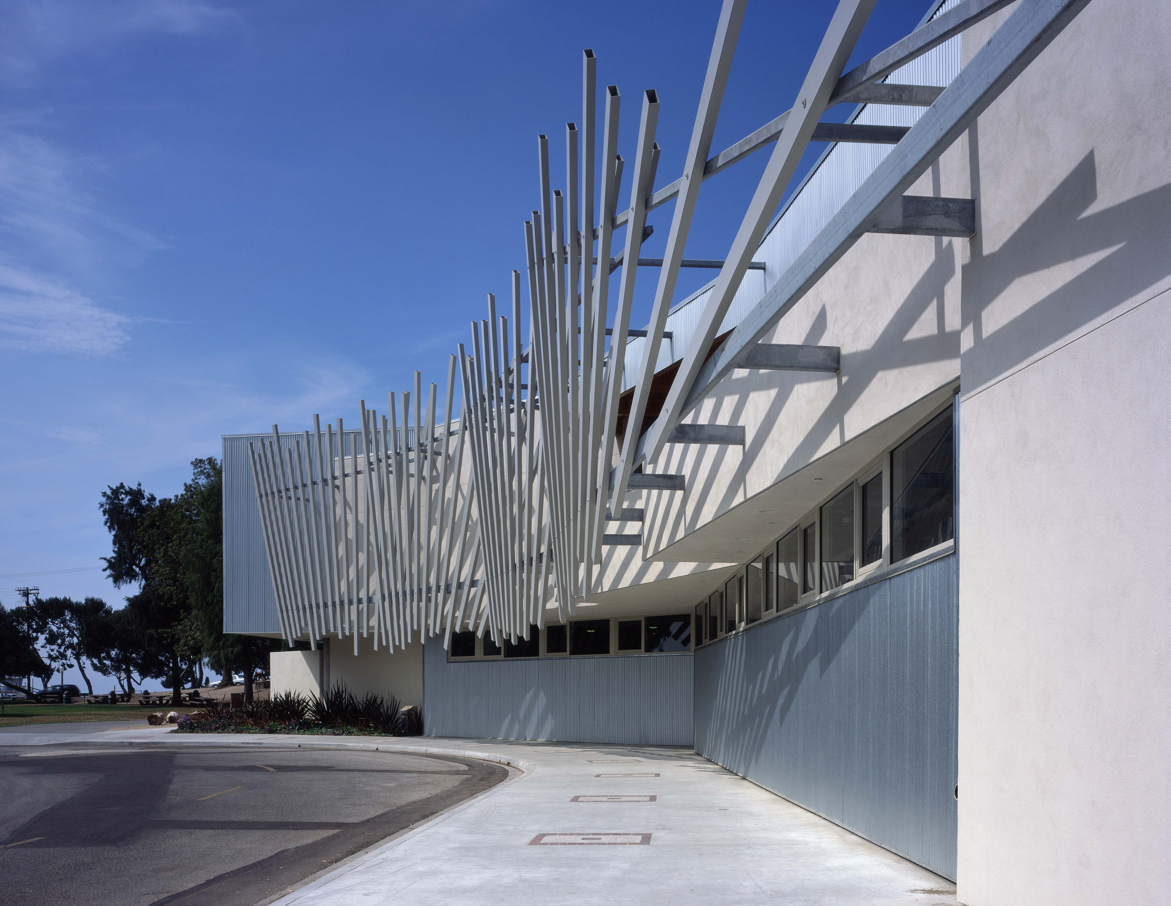 2004 Addition designed by Barton Phelps, South Screen